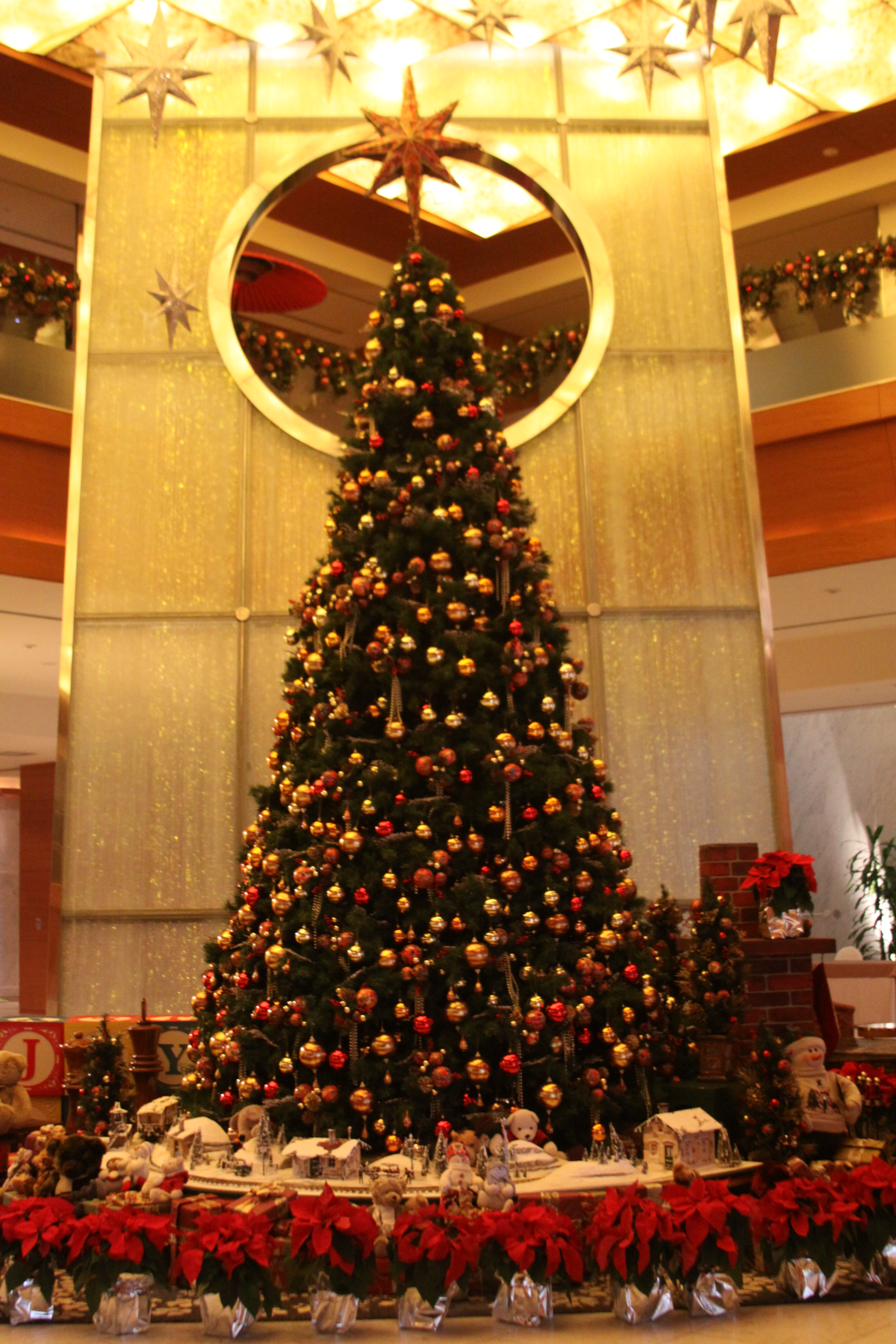 Kyoto Christmas Tree 2012.